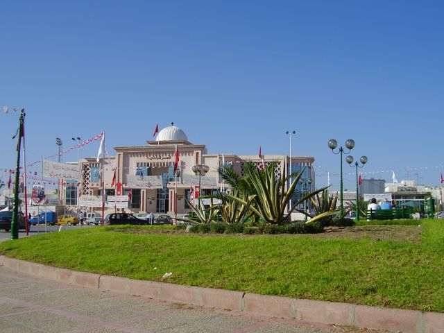 Ksar Hellal town hall